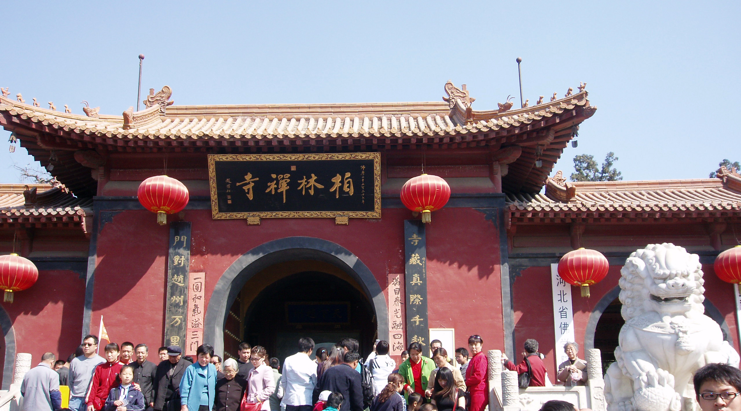 Bailin temple (柏林禅寺) in Shijiazhuang,China